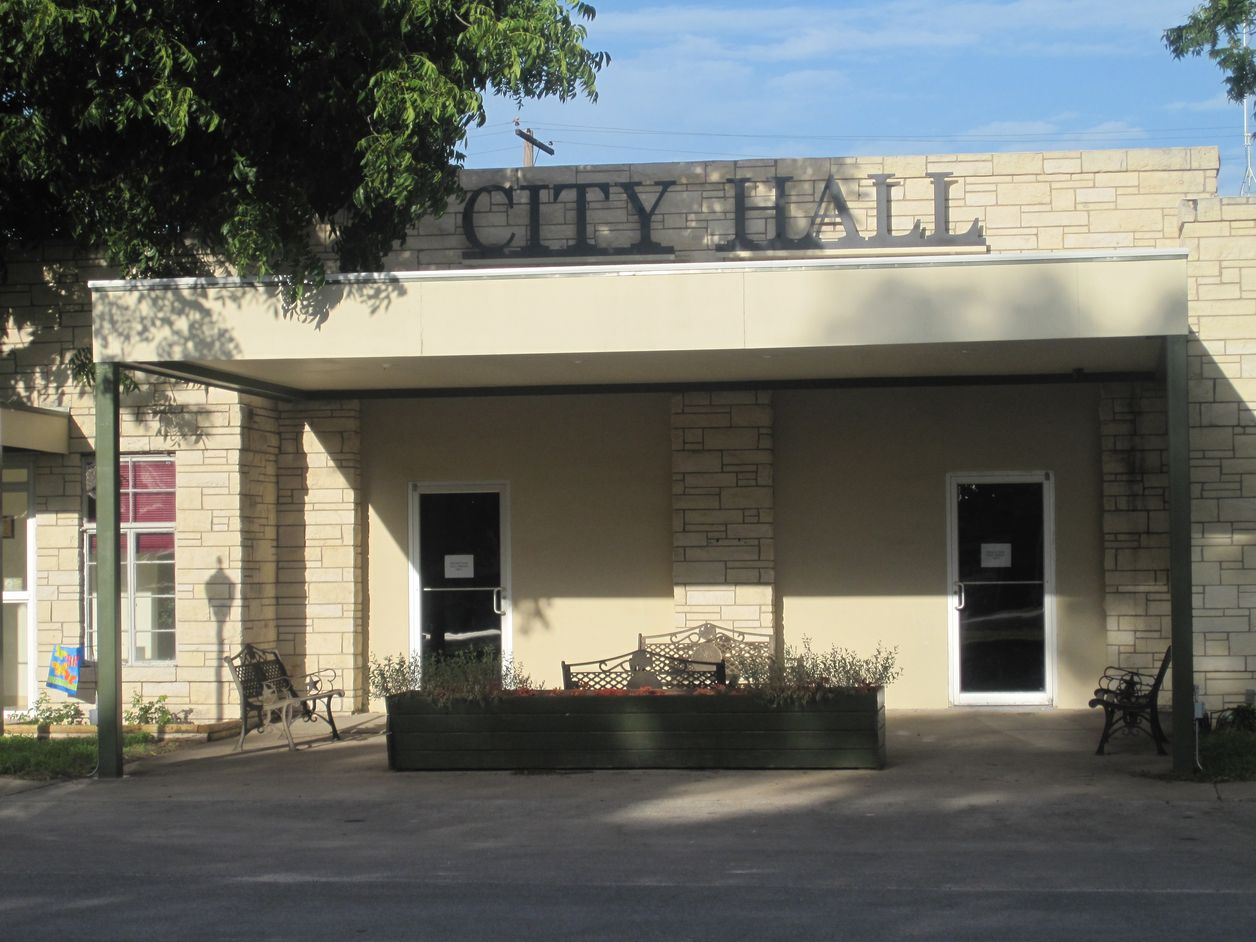 I took photo with Canon camera in Eden, TX.